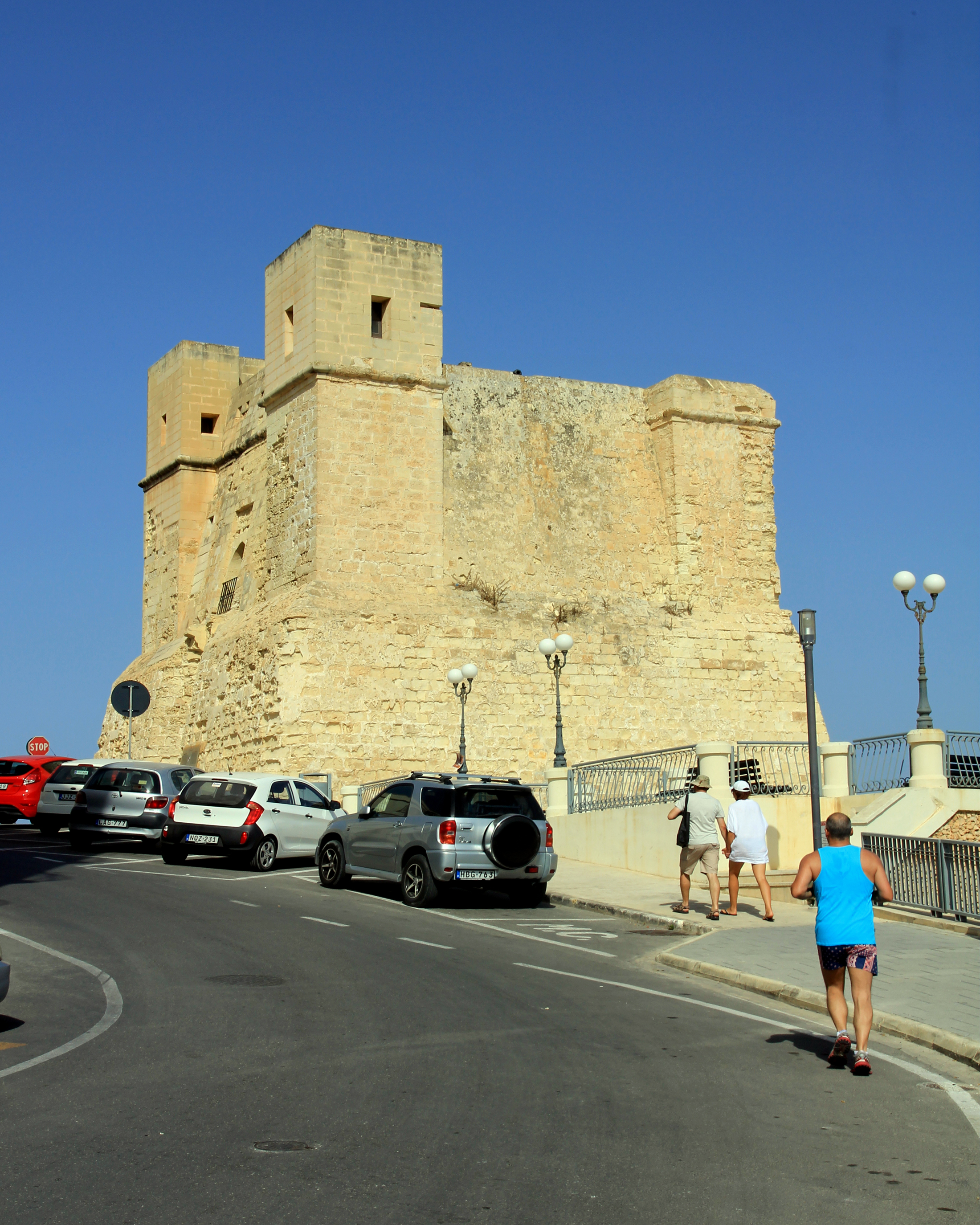 Wignacourt tower , St. Paul's Bay, Malta